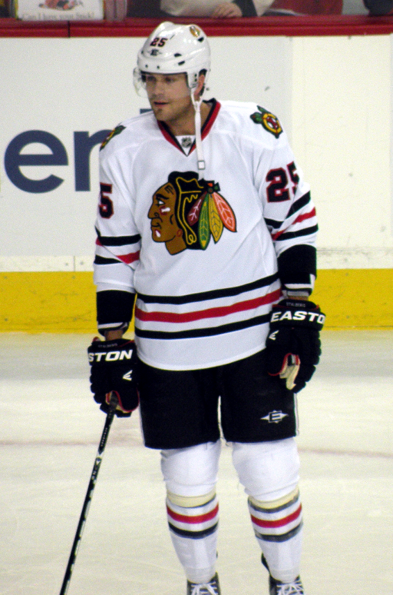 Chicago Blackhawks forward Viktor Stalberg prior to a National Hockey League game against the Calgary Flames.